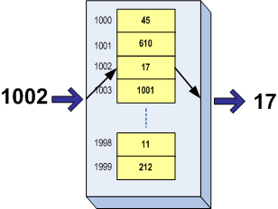 Memory access by address example